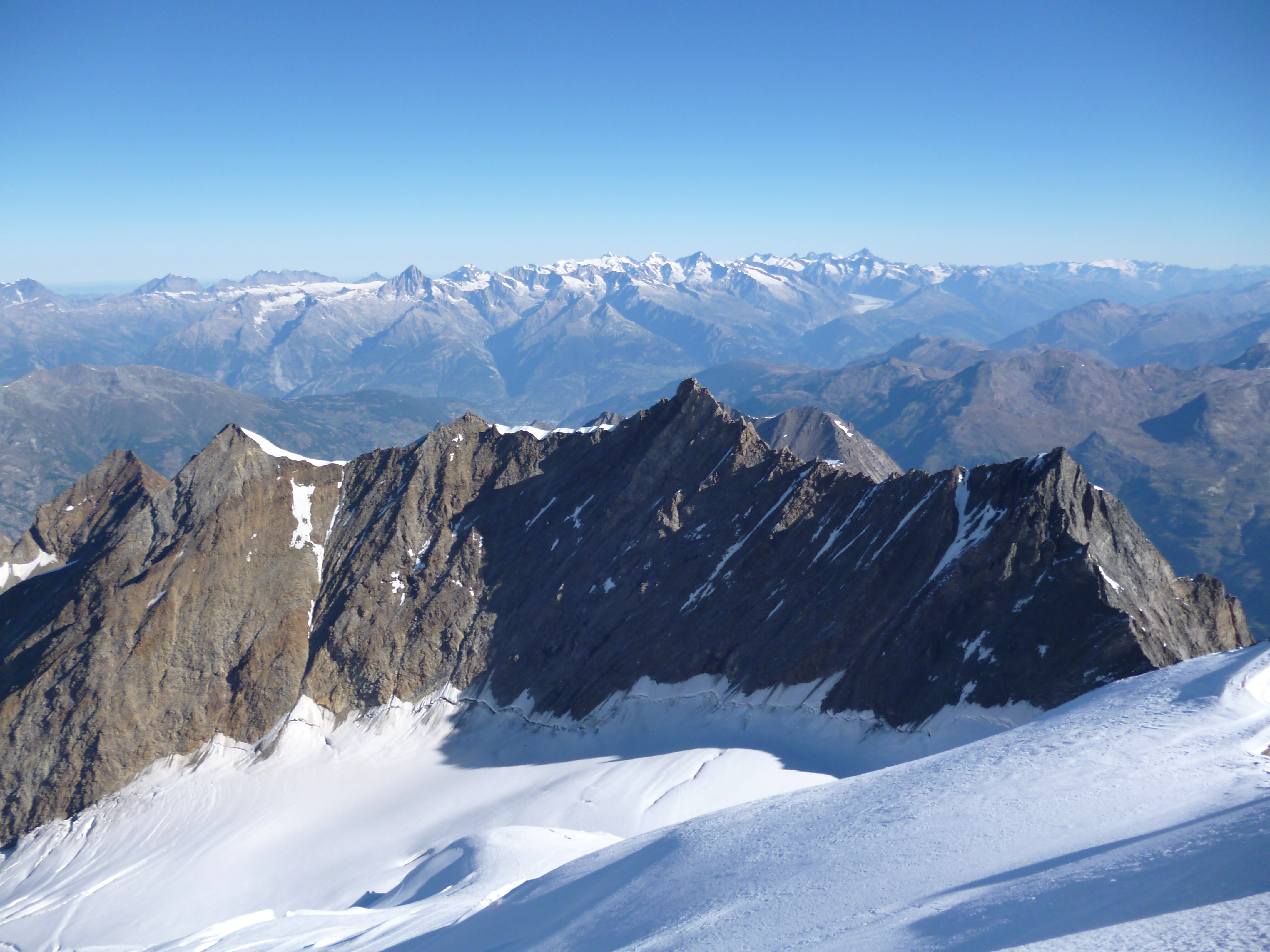 Nadelgrat from Dom